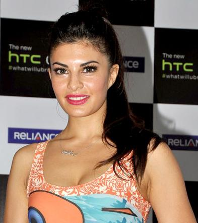 Jacqueline at Unveils The New HTC One